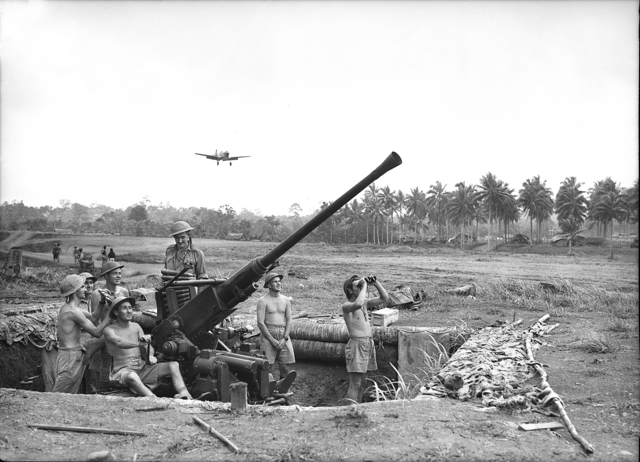 A Bofors 40mm anti-aircraft gun position manned by the 2/9th Light Anti-Aircraft Battery, Royal Australian Artillery, on the main fighter runway at Gili Gili airfield. A Kittyhawk fighter can be seen coming in to land. Included in the photograph are left to right VX36335 Jack Quick, gun layer (seated on the left), VX28384 Robert (Bob) Waterman, ammunition supplier and NX22470 B B Boughton or Buck Bearsford (?) and gun layer NX16412 Edward Preece (with binoculars on the far right).